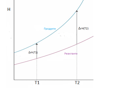 Graphic